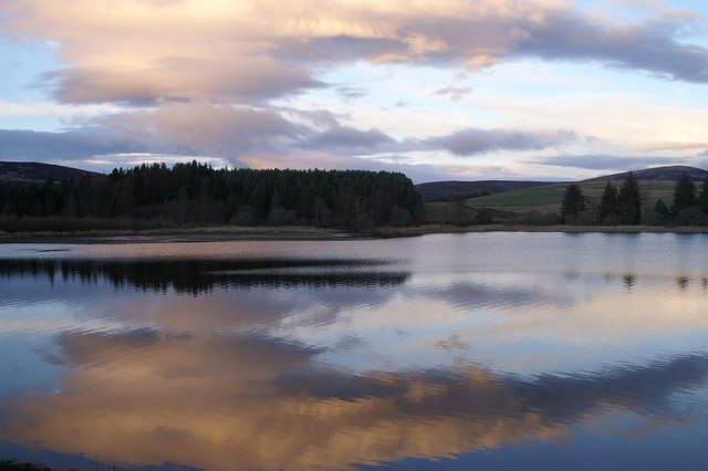 Loch of Lintrathen Calm dusk.